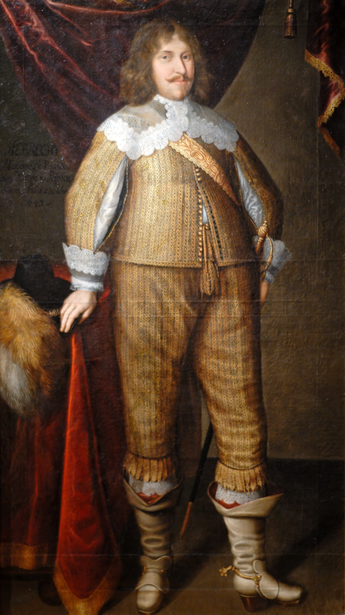 This image shows a portrait of Albrecht von Brandenburg-Ansbach (1620-1667). It has been painted by Benjamin Block, 1643. The image has been taken at the Plassenburg in Kulmbach, Germany.